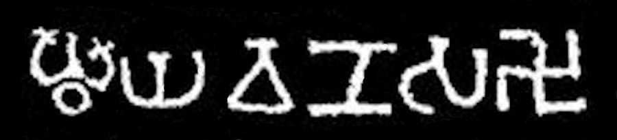 Shivneri Yavana word in Brahmi, surrounded by Buddhist symbols